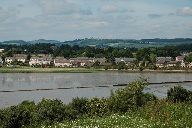 Invergowrie